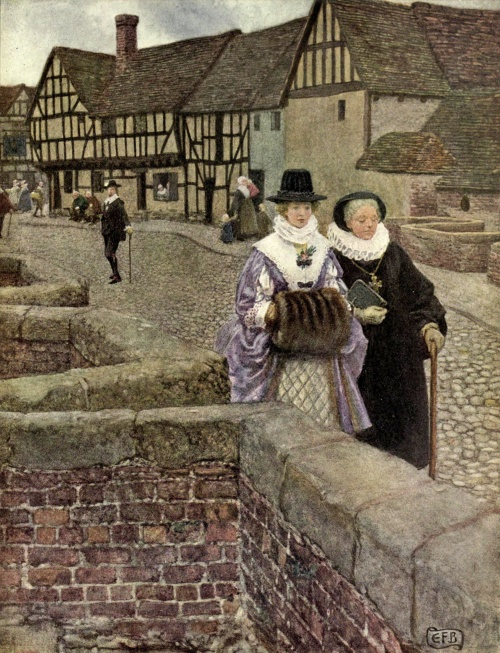 The Book of old English songs and ballads